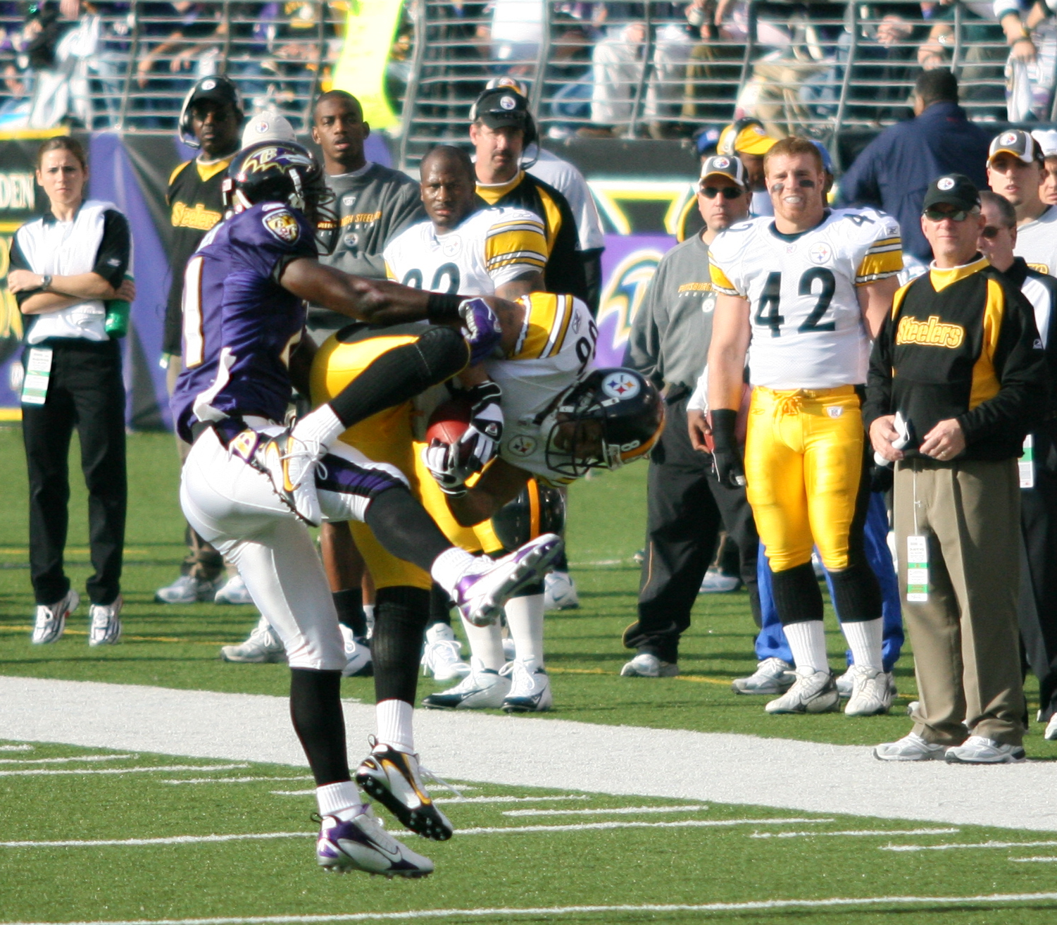 James Harrison and coach Keith Butler can be see in the background.